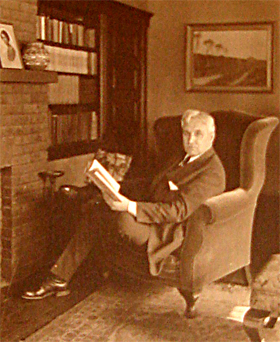 Charles Aubrey Eaton